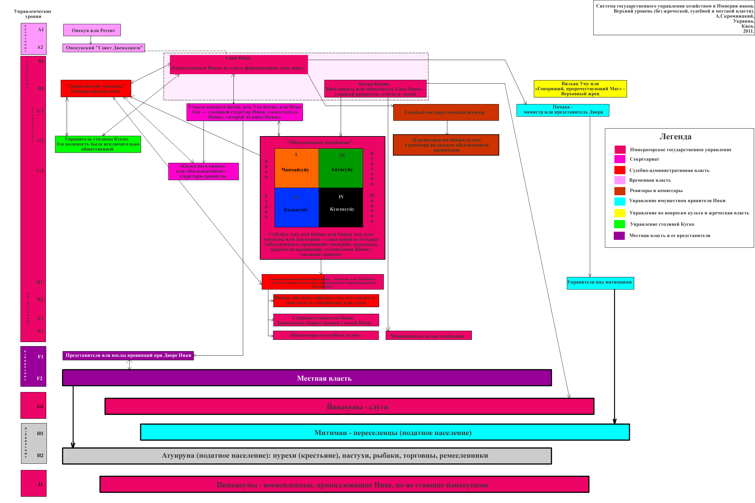 The state managment system of the Inka Empire's ecomony